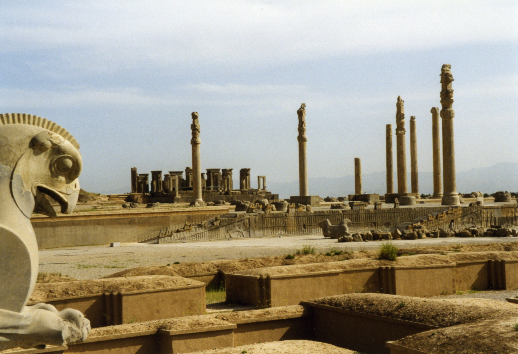 Persepolis, from the north-east to the Apadana and Darius' Palace